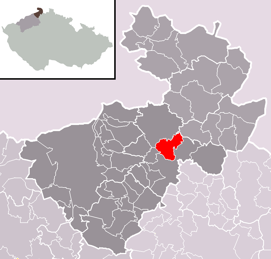 Location of Kunratice municipality within Děčín District and administrative area of Děčín as a Municipality with Extended Competence.